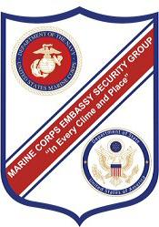 USMC